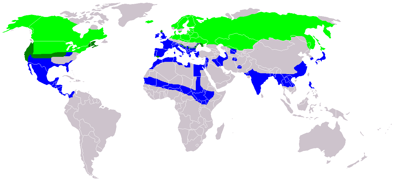 Distribution of Anas acuta Light Green - nesting area Blue - wintering area Dark Green - resident all year